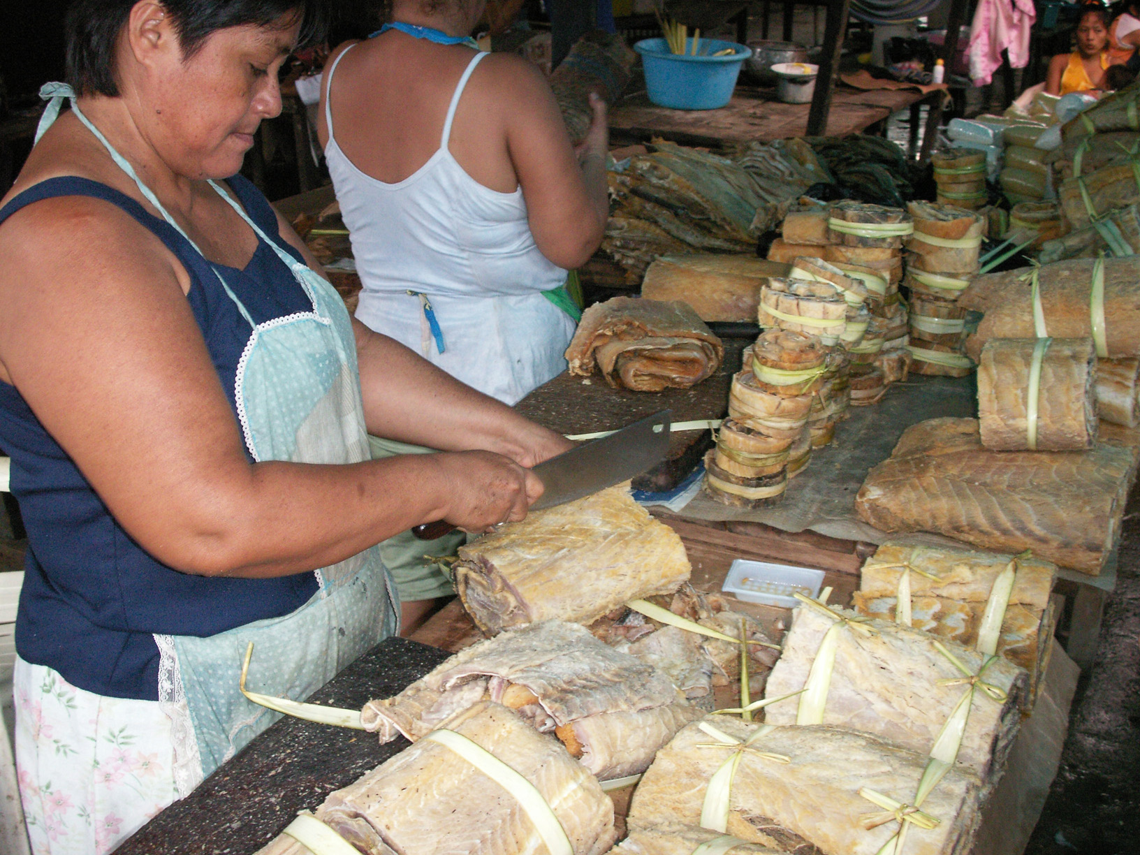 Salt cured paiche for sale at the Belen market in Iquitos, Peru. Photograph by Jorge Mori.